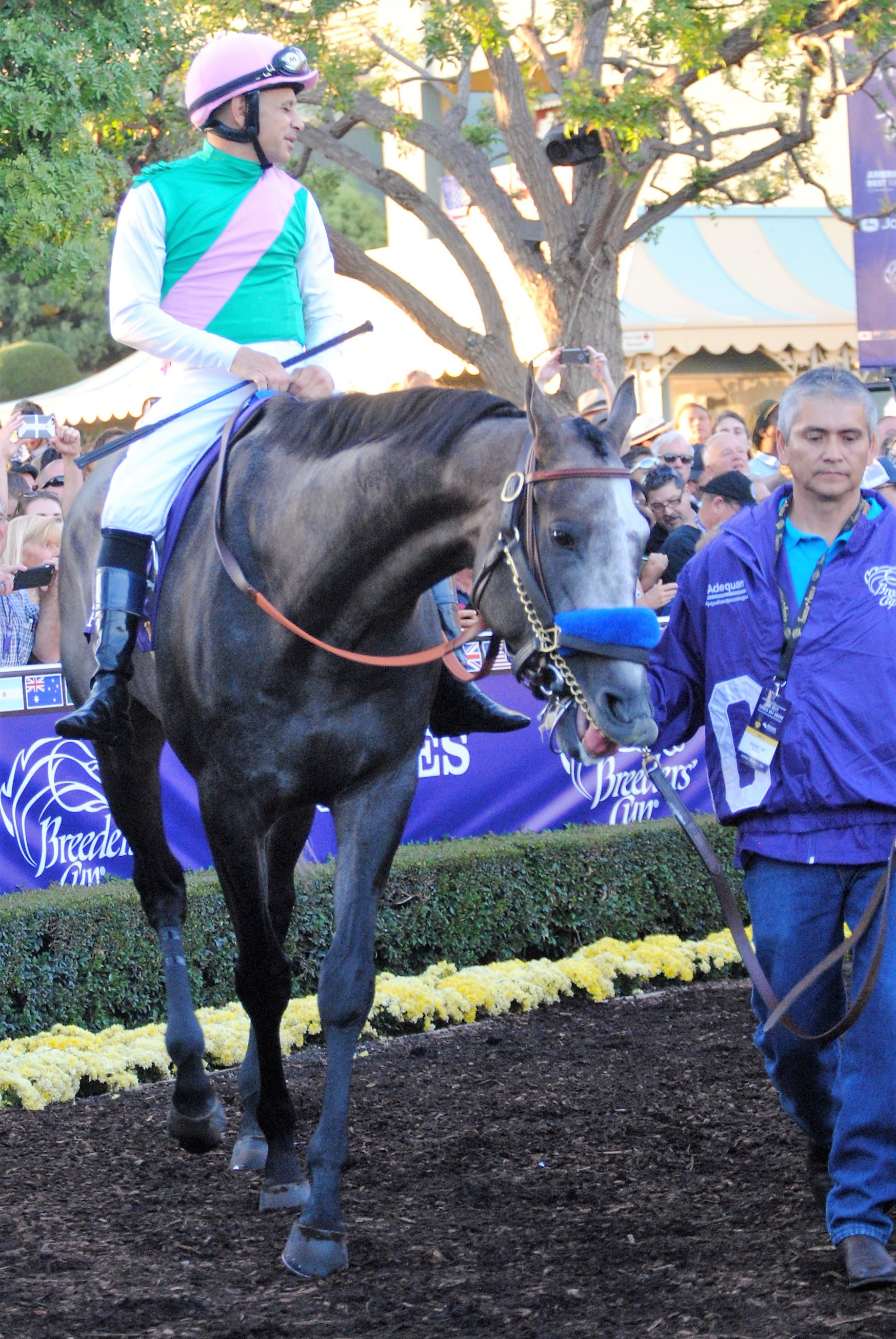 Arrogate before the 2016 Breeders' Cup Classic with jockey Mike Smith